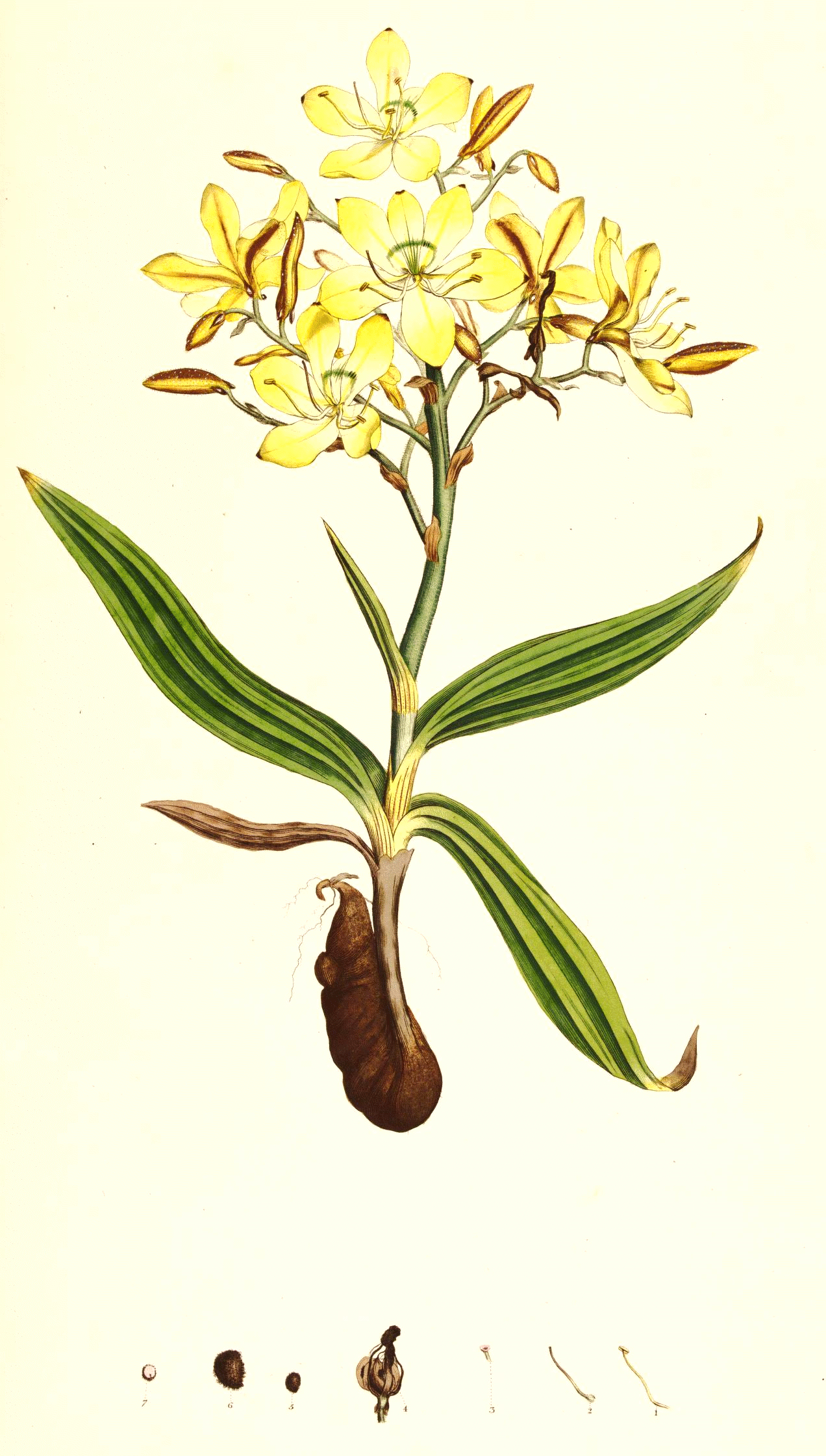 Plate from book Wachendorfia paniculata